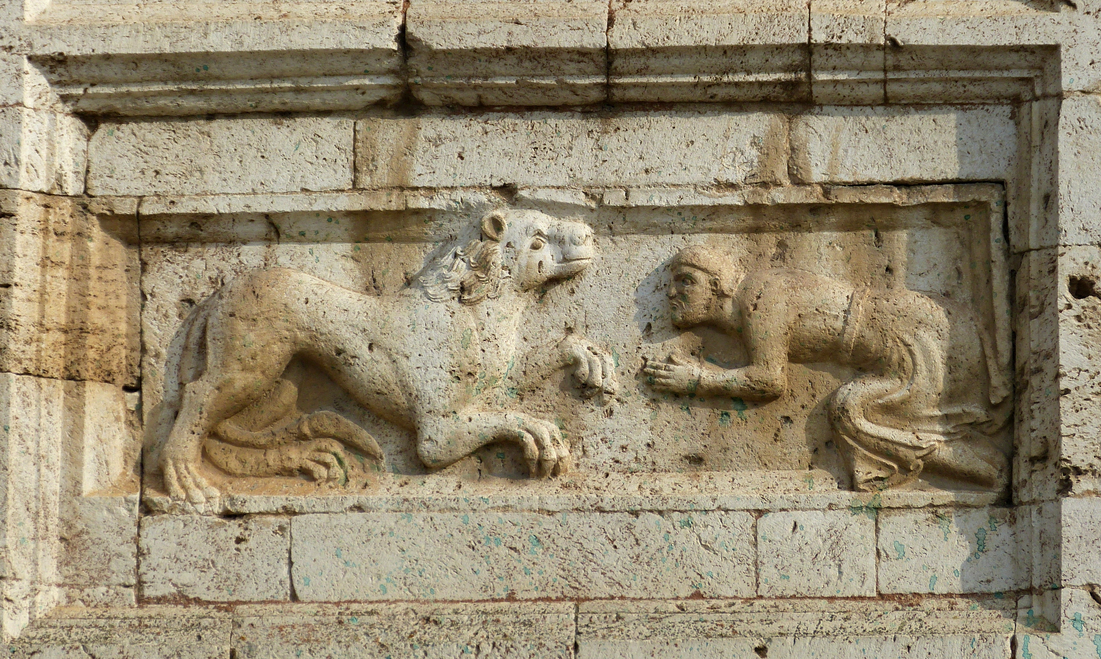 Spoleto ( Umbria ). San Pietro fuori le mura: Romanesque main portal ( 1200s ) - Reliefs at the left: A lion spares a kneeling man ( Allegory of the mercy of god against the humility of man )